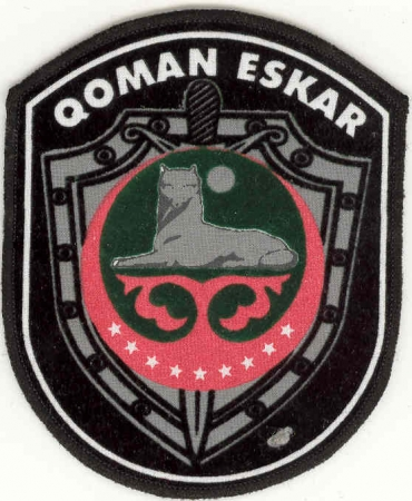 Chechen Army patch